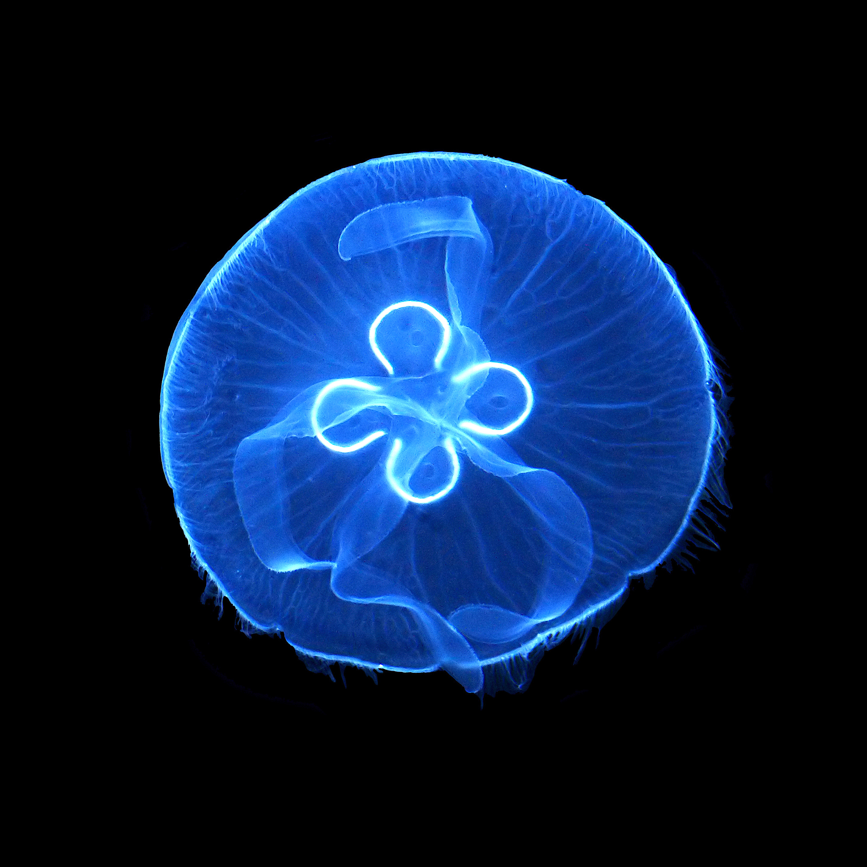 Moon Jelly, at Pairi Daiza, Brugelette, Belgium.Because of the lighting, the organism in shown in false colour.